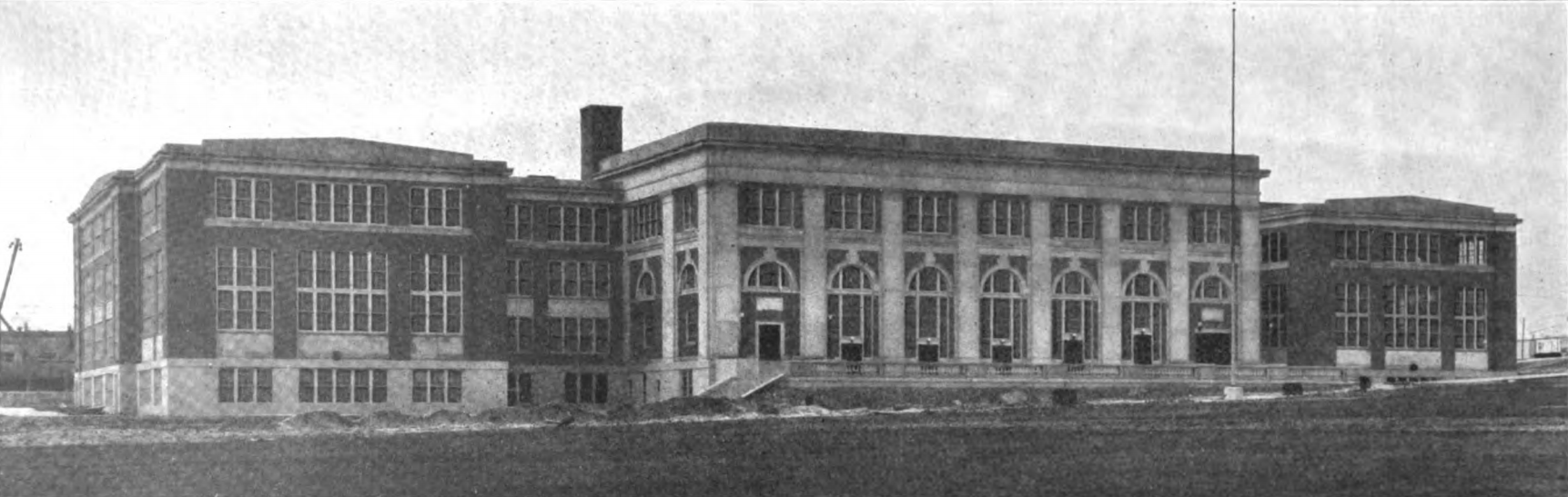 An exterior photo of Clifton Park Junior High Baltimore in 1923, then newly constructed, from the Baltimore Bulletin of Education